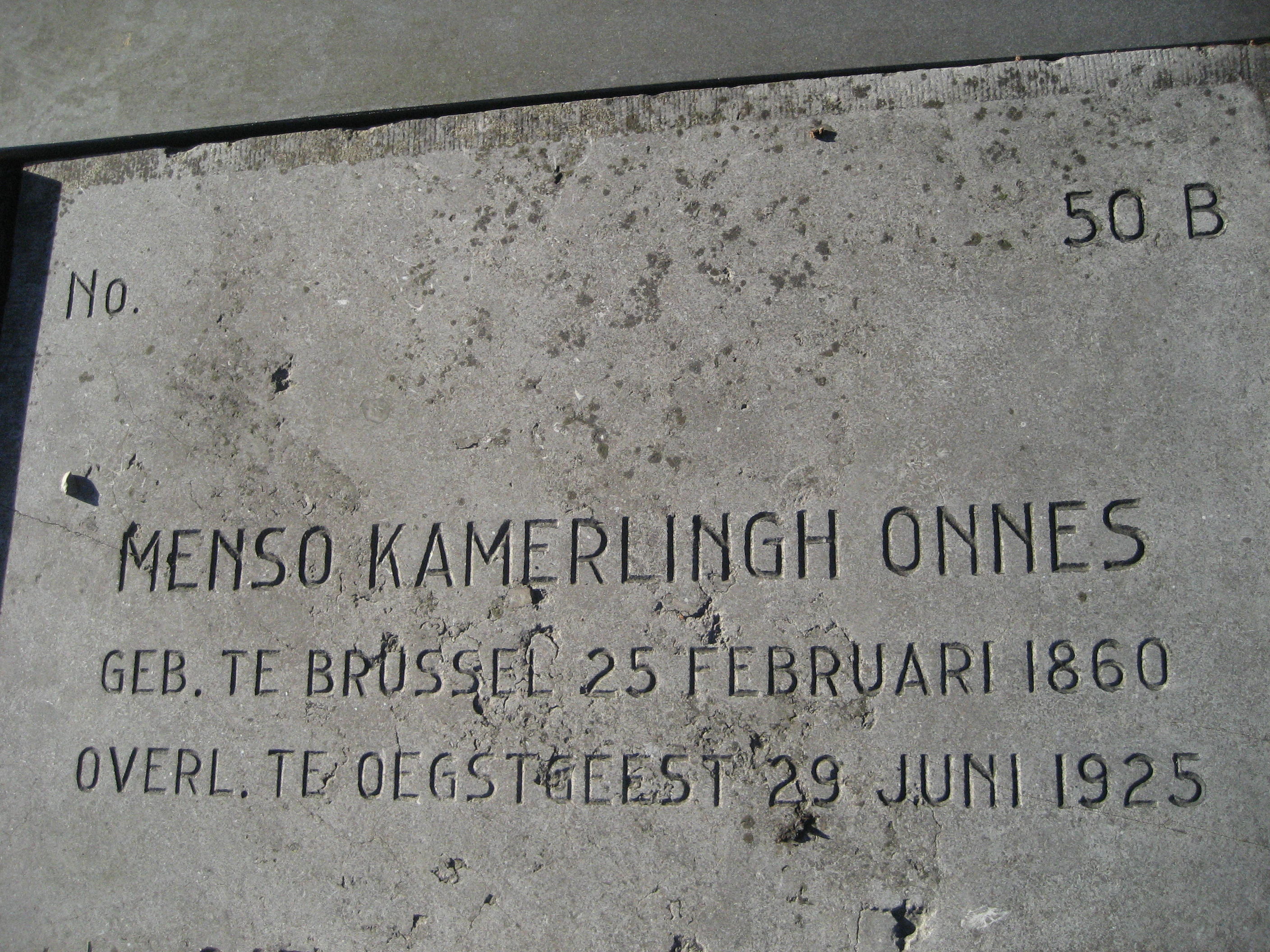 Grave of Menso Kamerlingh Onnes (1860-1925, painter) in Voorschoten